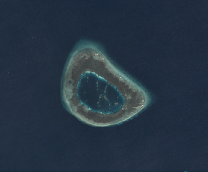 Royal Charlotte Reef is an atoll of Spratly Islands.